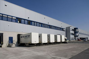 Meyer & Meyer Warehouse Peine